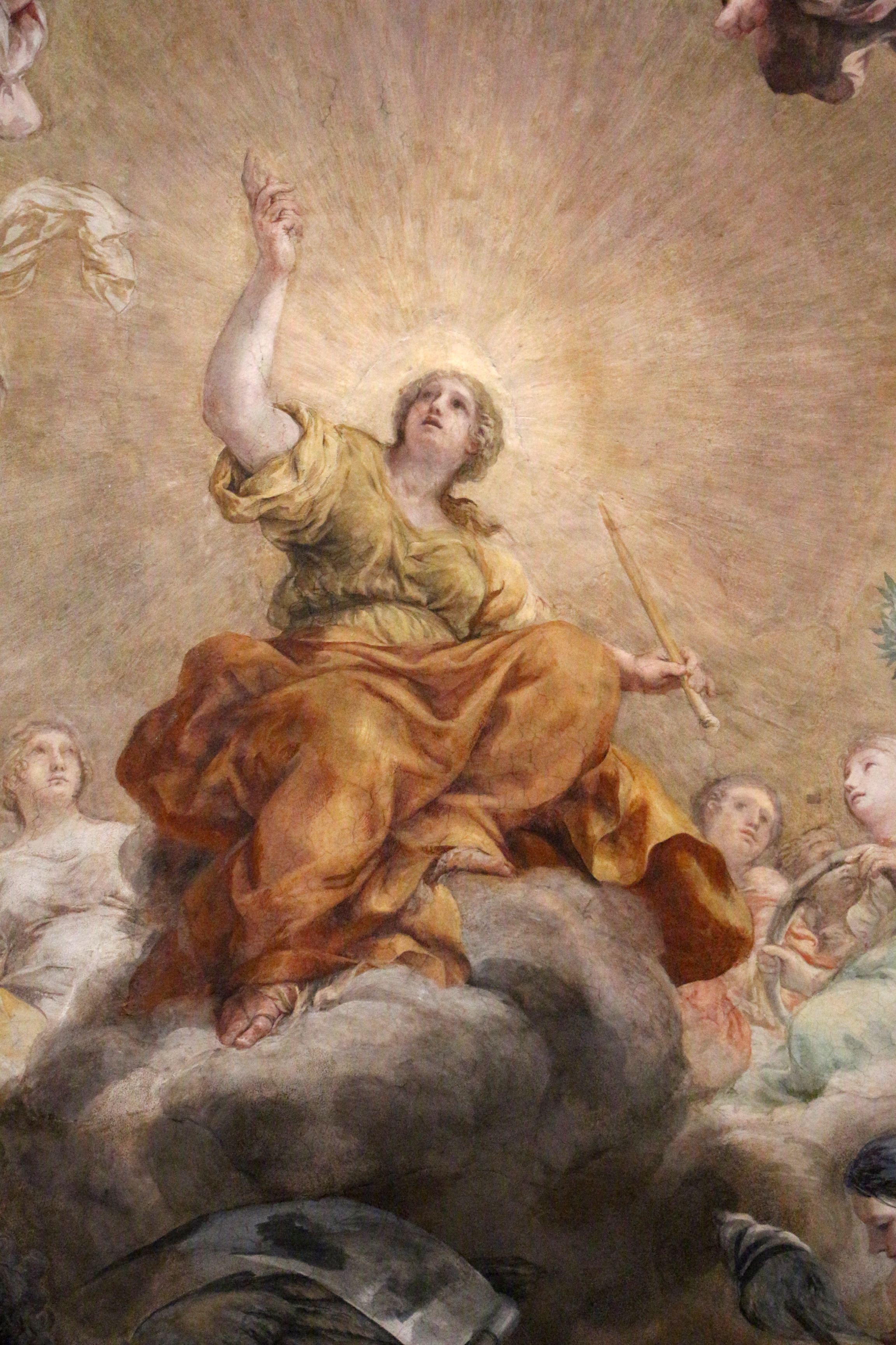 Triumph of the Divine Providence by Pietro da Cortona